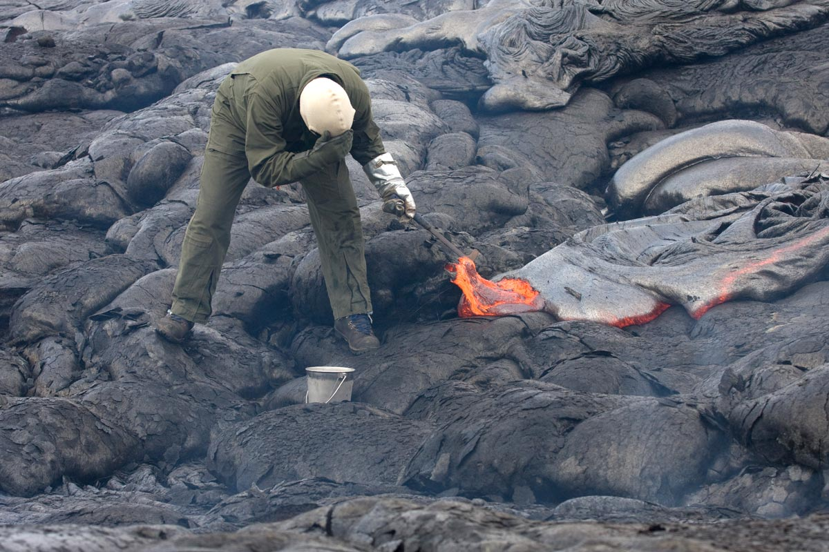 A geologist collecting a lava sample for chemical analyses from an active lava flow on Kilauea, using a rock hammer and a bucket of water.